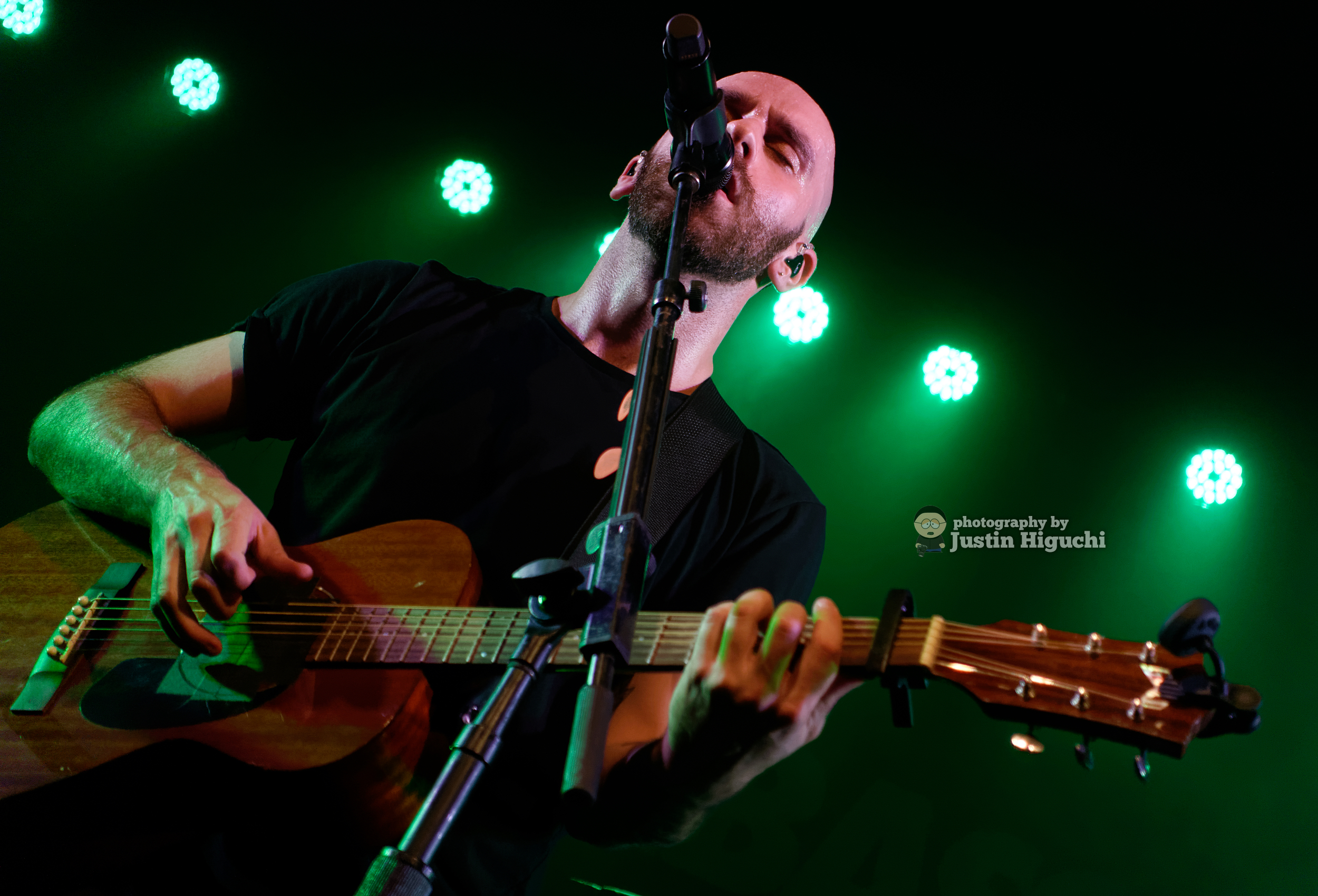 X Ambassadors performing live at The Fonda Theatre in Los Angeles, California on Saturday November 14th, 2015. Skylar Grey opened.